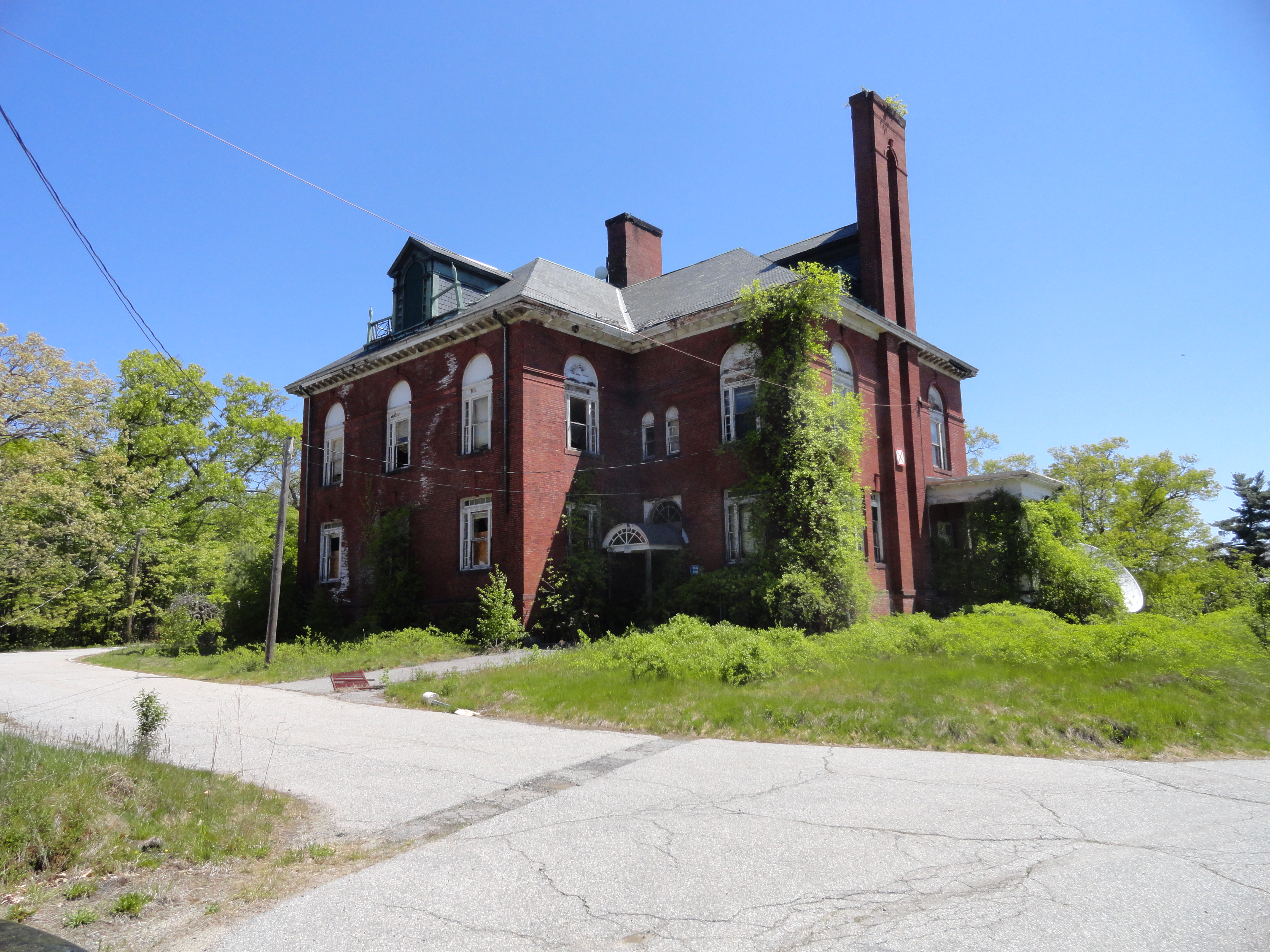 Read Hall, on the University of Massachusetts Lowell's West Campus.